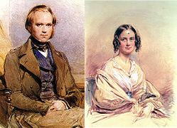 Water-color of Emma Darwin (1840) by George Richmond (1809-1896)